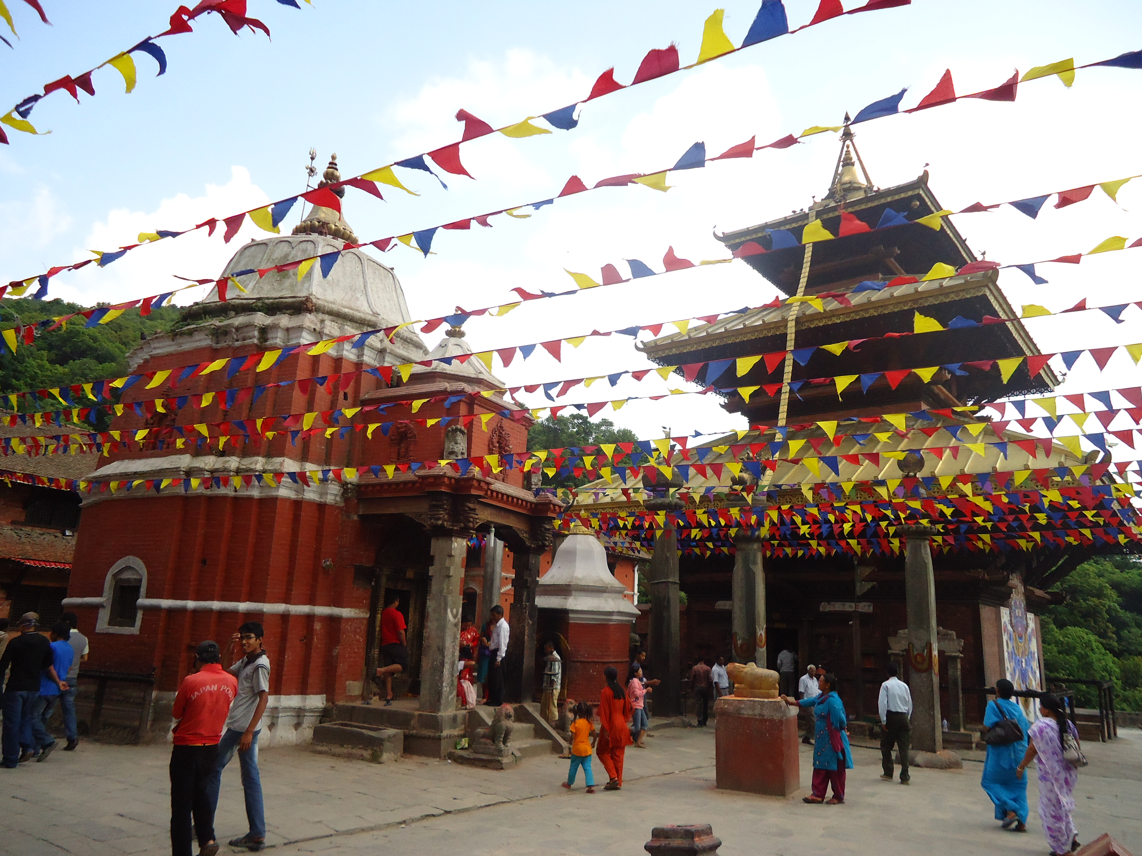 A temple located in Banepa.